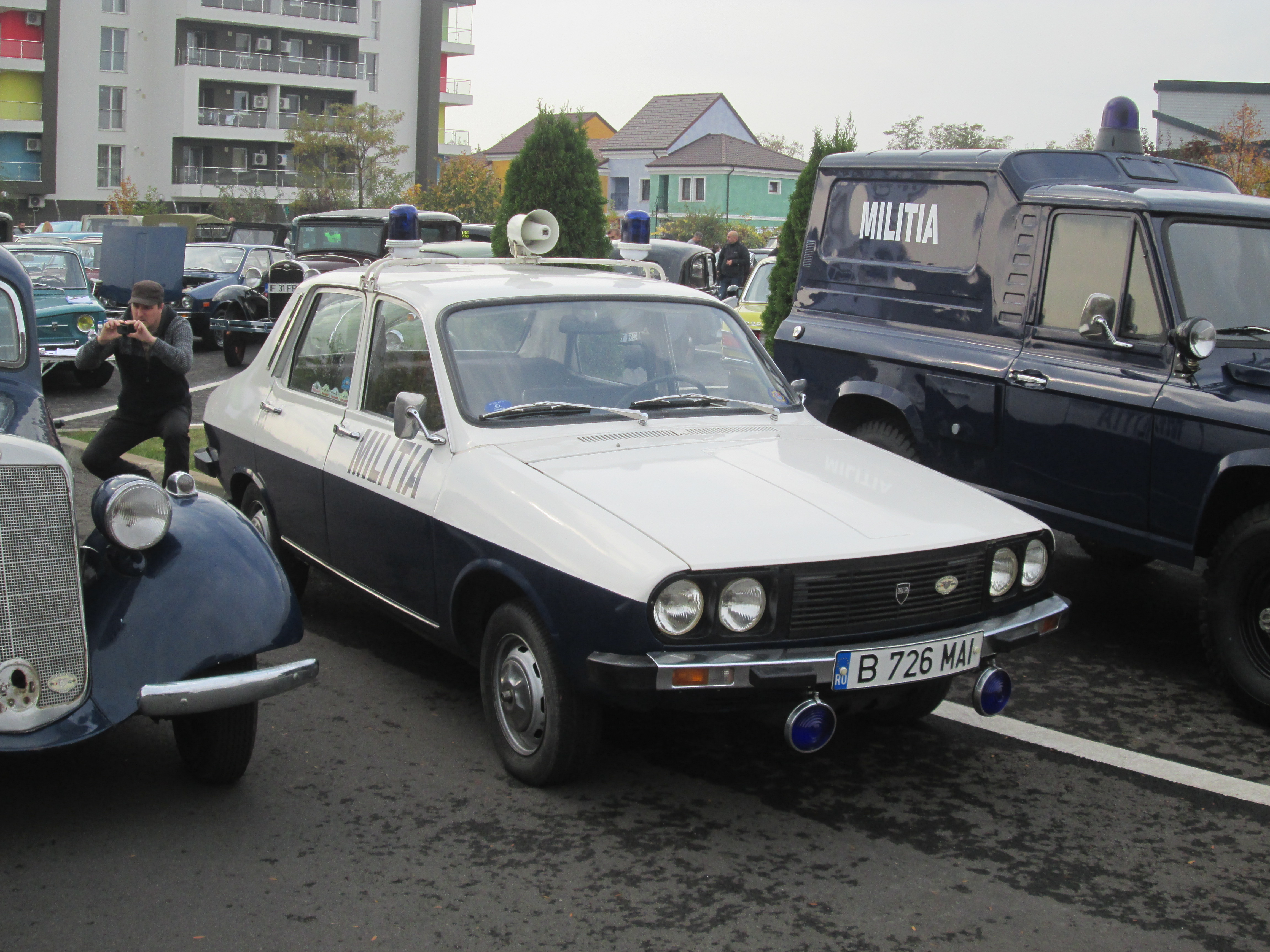 1982 Dacia 1310 (Militsiya model) at the Autumn Retroparade, 2018, Bucharest